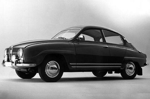 Saab Sport, 1965. Saab Sport was introduced as a follow up to Saab GT750.